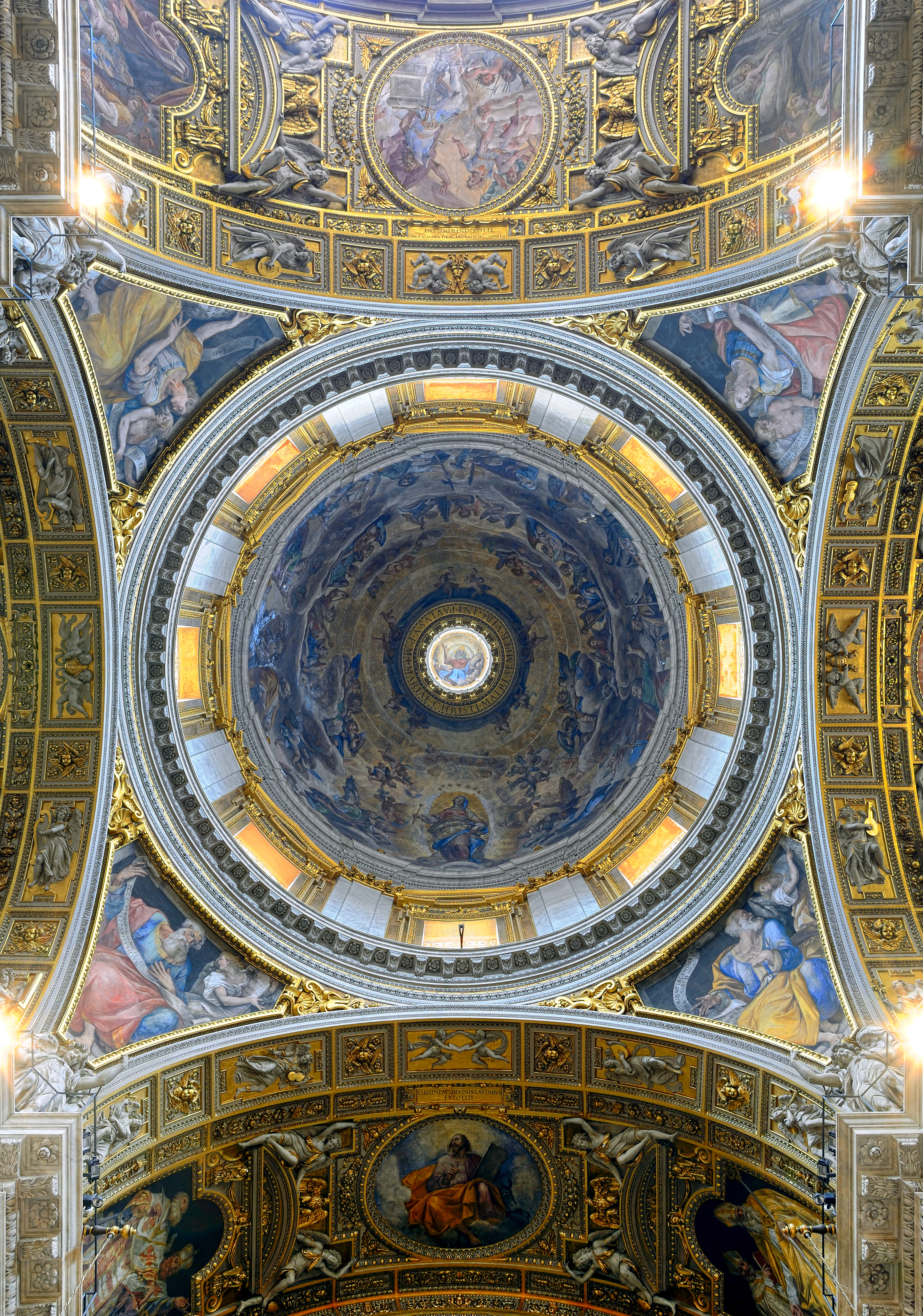 The Assumption of Mary was painted inside the cupola by Ludovico Cardi nicknamed Il Cigoli . Above the clouds, the Blessed Virgin is transported towards the Heavens. The moon underneath her feet was painted exactly as it had been revealed through the telescope of Galileo, who was a friend of Cigoli. The Apostles, some seated while others are standing, gaze at the triumphant Mary as she holds a queen's scepter in her hand. Before the Virgin, who has crushed the serpent under her foot, the heavens open and the choirs of angels rejoice. From this multitude, a smaller group of cherubs draws closer to Mary, and clothed in the clouds they form a throne with their golden wings. Other cherubs blow horns, play trumpets and scatter flowers. Above them, we can see a myriad of angelic spirits, whose heads alone are fully visible.